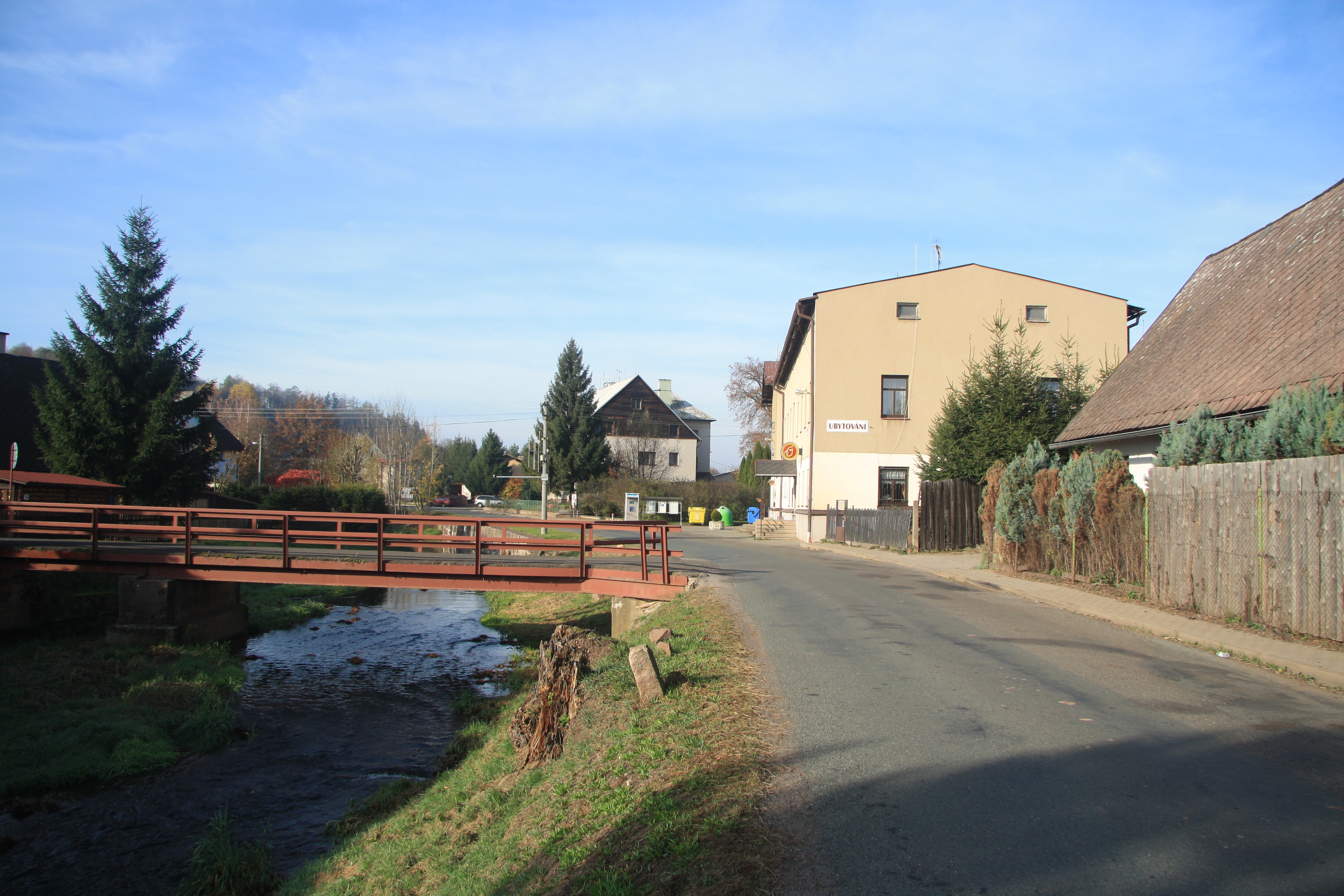 Overview of Hynčice with Stěnava river in Hynčice, Náchod District.